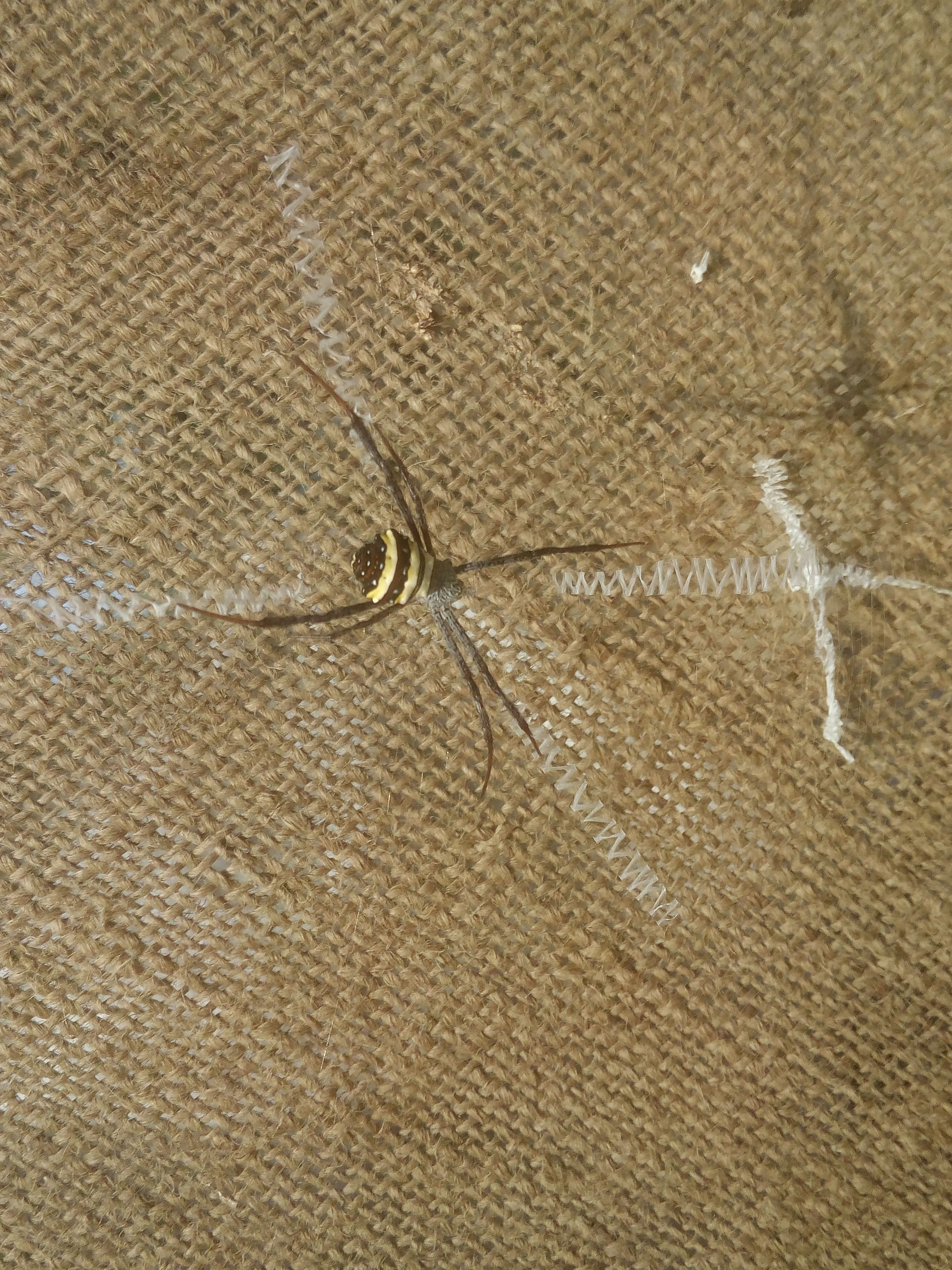 Spider image